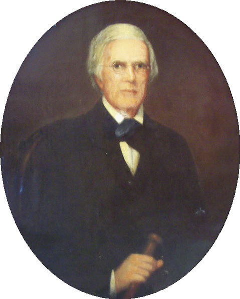 Joseph Thorp Elliston, Nashville's first silversmith, jeweler, watch and clockmaker, in his 60s, seated holding a cane, by Washington B. Cooper, circa 1840. Metro Davidson County Collection, Nashville Public Library.